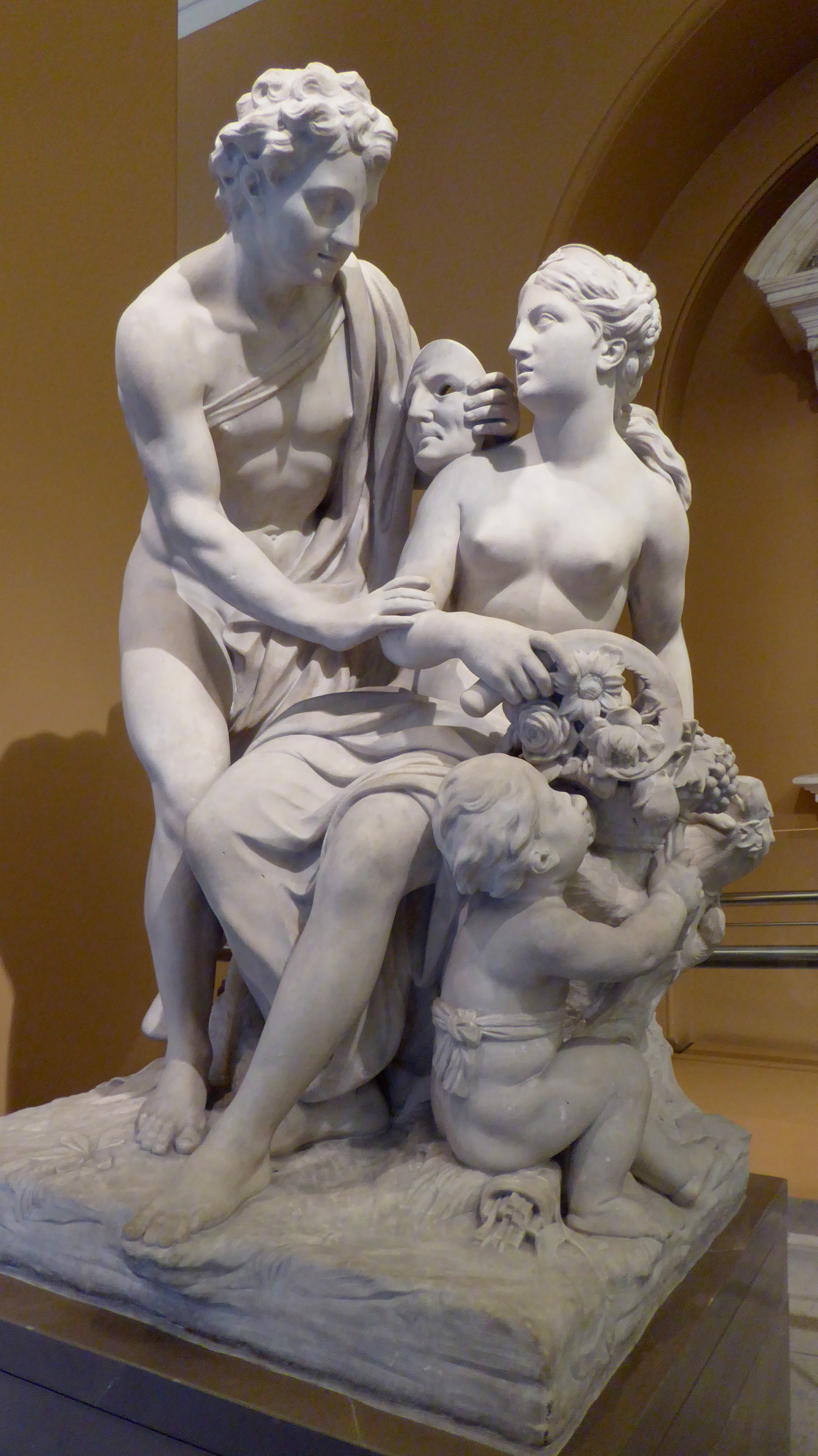 "Vertumnus and Pomona", a sculpture by Laurent Delvaux created circa 1725, probably for the Duke of Chandos. Later held at Stowe in Buskinghamshire, it is now on display at the Victoria and Albert Museum in West London.